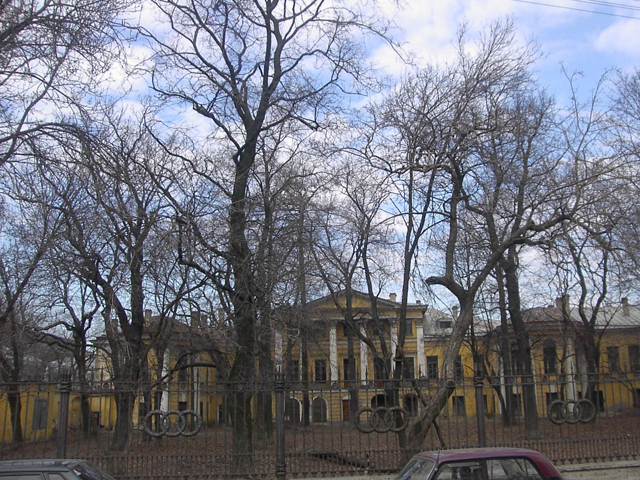 Admiralty Canal Embankment. Bobrinsky Palace from his garden. Builded in 1790s by project of Luigi Rusca.